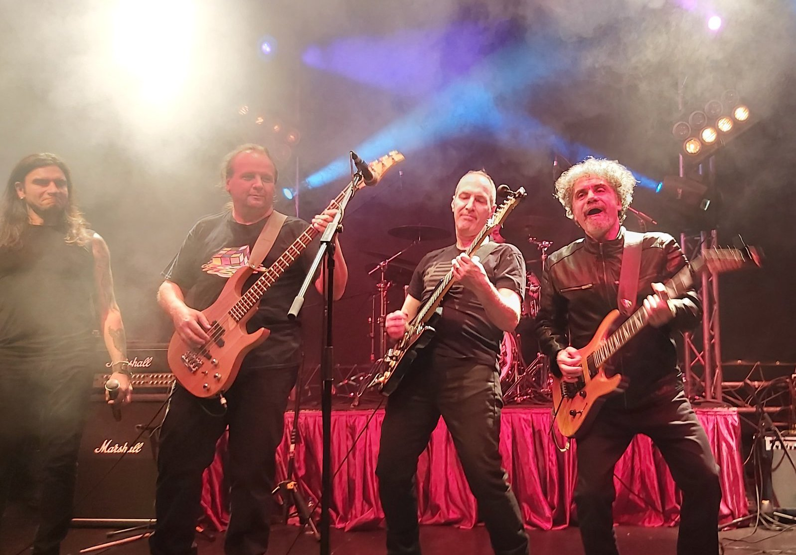 Dr. Skull Ankara Jolly Joker Concert - 8 November 2019